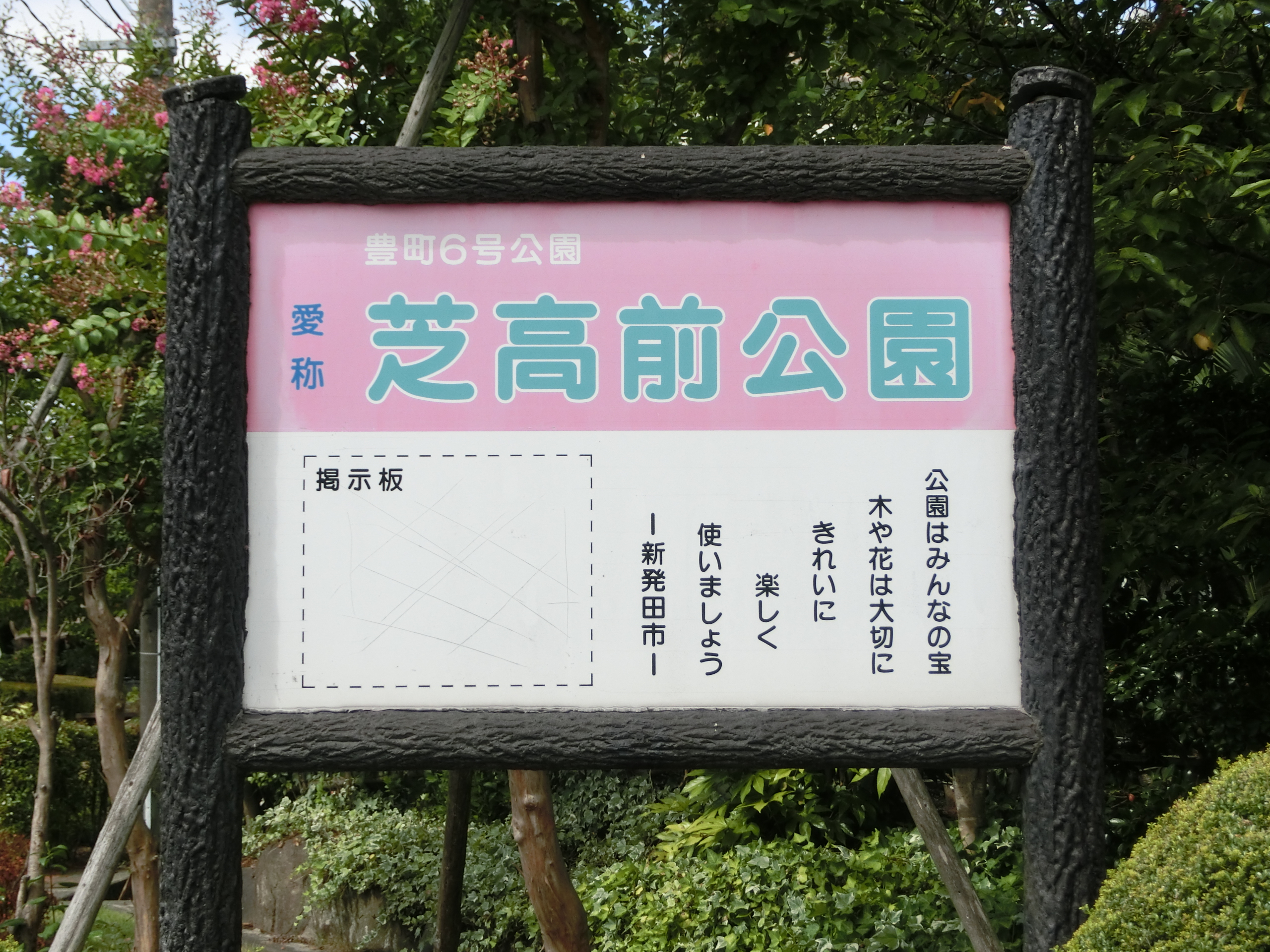 Shibako-mae Park sign